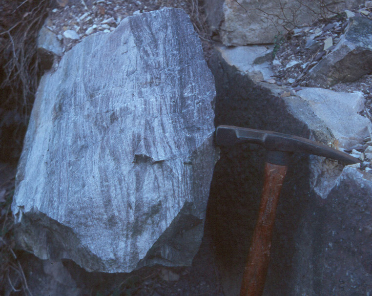 Conformable contact of overlying Tuscarora Formation (white rock, left) and underlying Juniata Formation (red rock, right), at the Narrows along rt. 30 in central Bedford County, Pennsylvania, in 1998. Uploaded and taken by James Stuby.